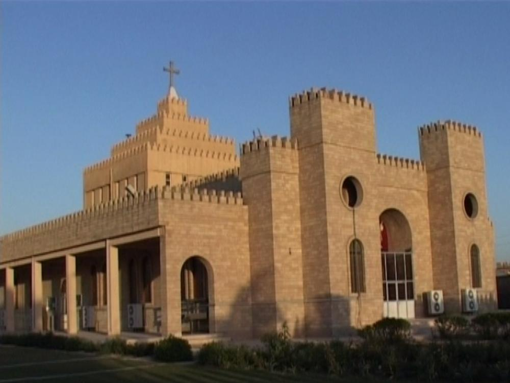 Chaldean Catholic Cathedral of Saint Joseph in Ankawa near Erbil, Iraq.